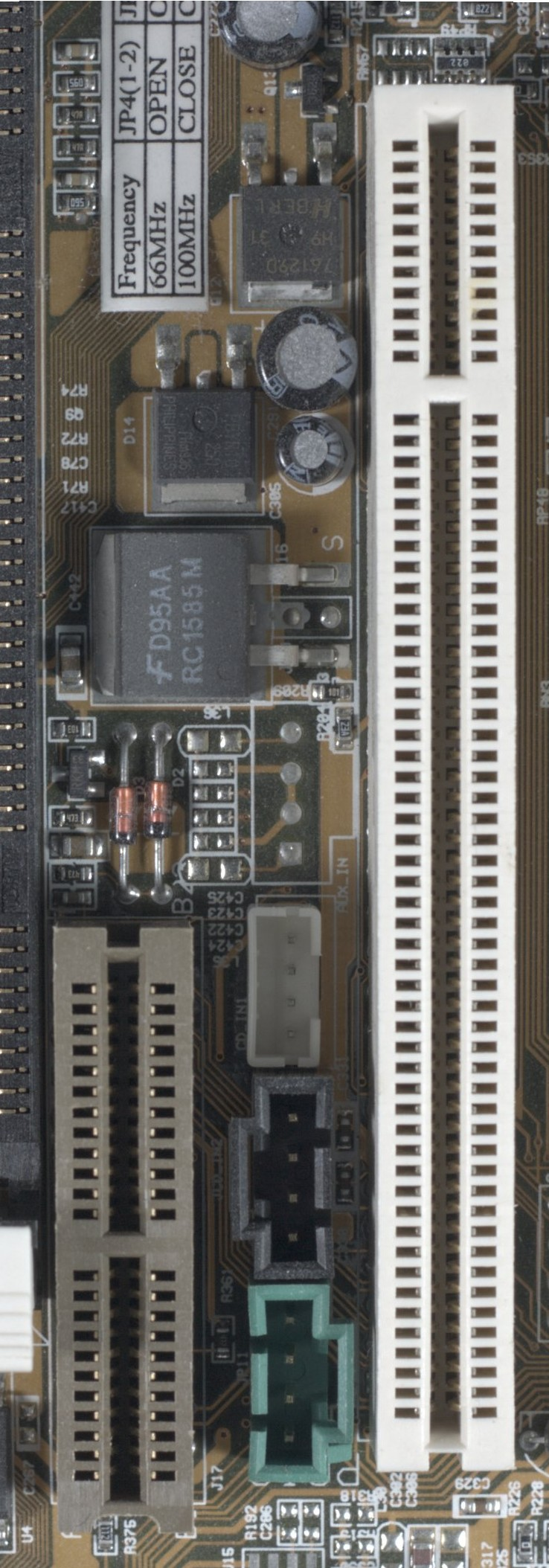 Audio/modem riser (AMR) slot (brown, at left) next to PCI slot (white, at right) for comparison, on an old BioStar M6TWG 1.1 motherboard.